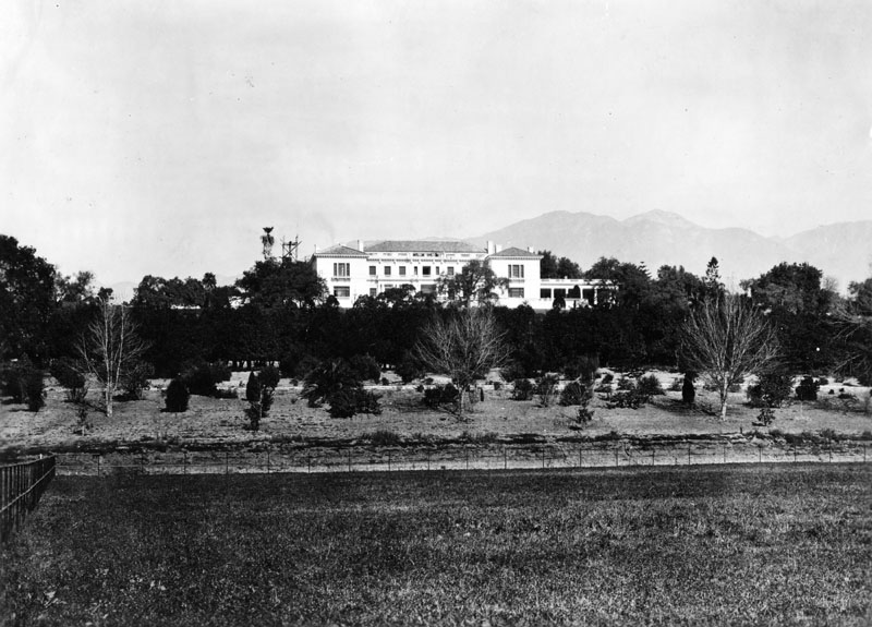 The Huntington Mansion of Henry E. Huntington, 1915. It would later be the center of the The Huntington Library.